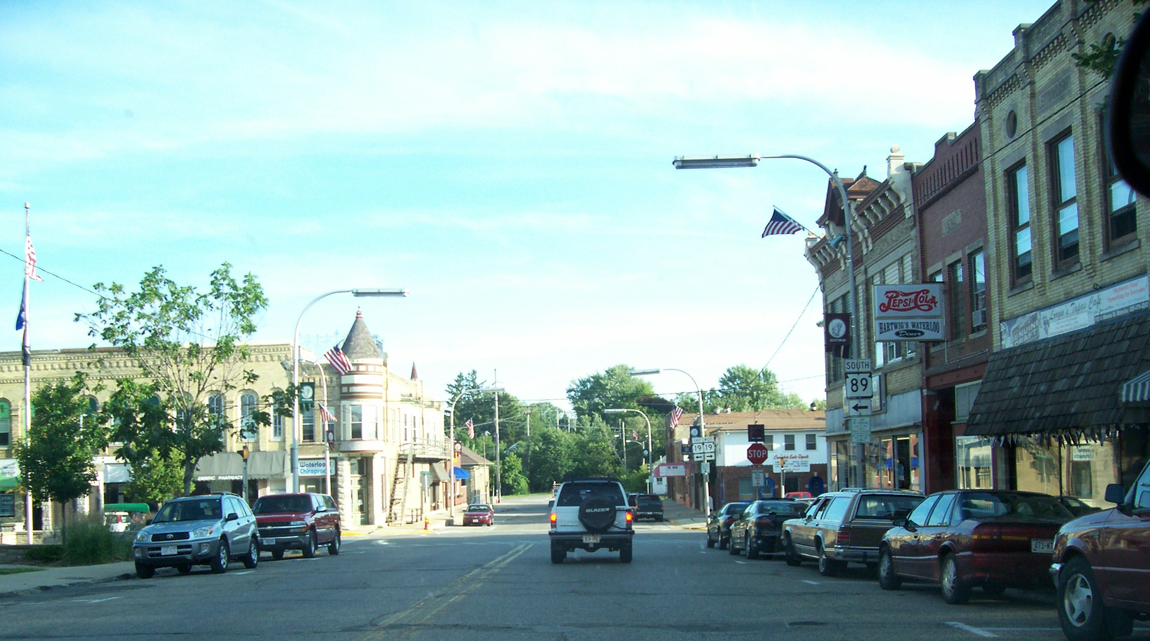 Looking south at downtown Waterloo, Wisconsin in Jefferson County, Wisconsin, USA. Taken on Wisconsin Highway 89.